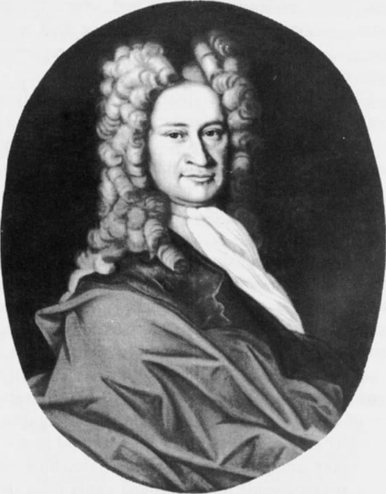 Thomas Geancach Fitzgerald,18th Knight of Glin